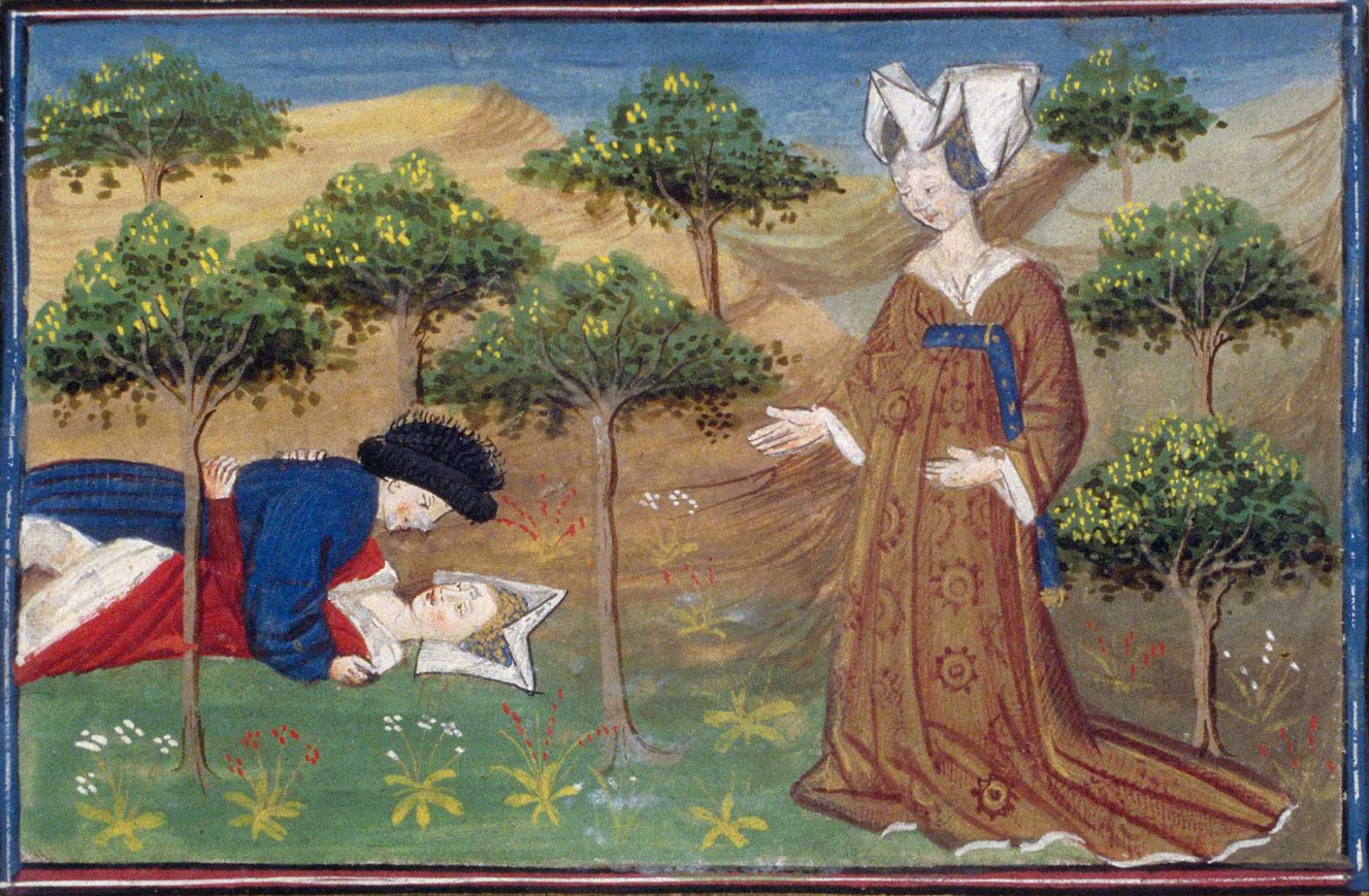 Lancelot du Lac manuscript copied in Poitiers 1480 BnF, Manuscripts, French 111 fol. 9 Morgan, Arthur's sister, one day caught the knight she loved in the arms of another young lady. She bewitched the place and decided that any knight passing through this valley would be condemned to stay there if he failed in love. For twenty years, two hundred and fifty three knights have been living there with their mistresses, without anyone being able to leave it. This Val is for them "without return", until the day when will deliver them a knight with the heart which will never have failed in love: Lancelot.